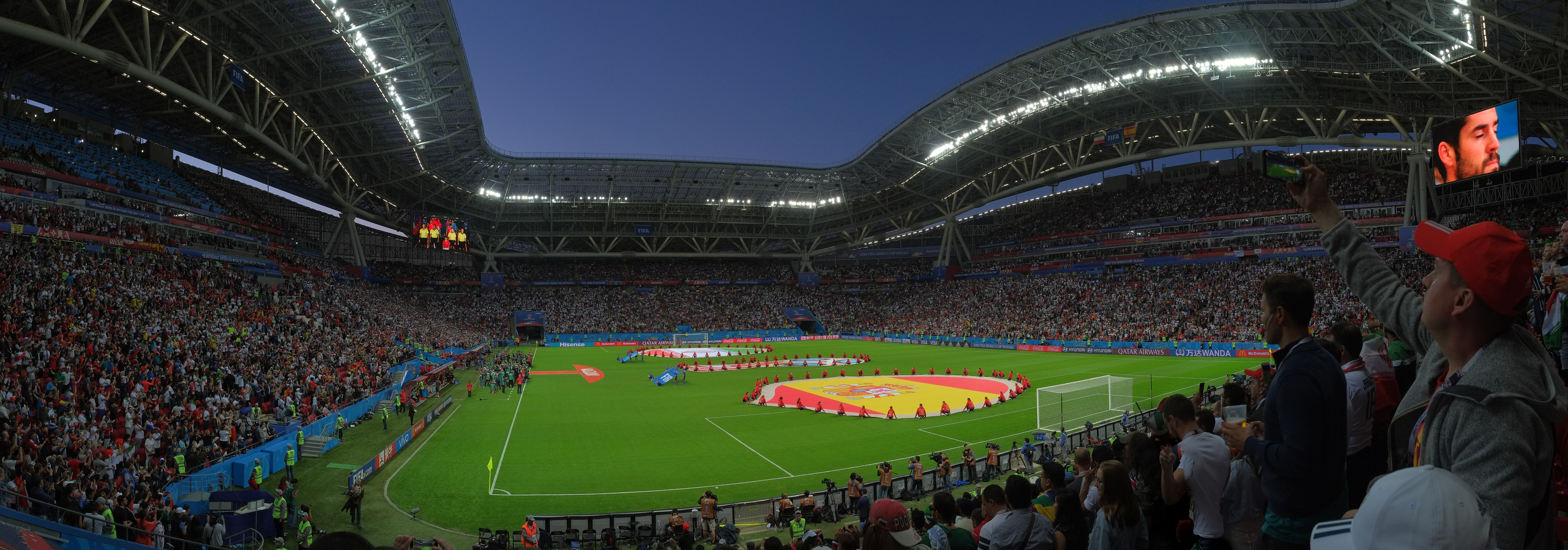 FIFA 2018 World Cup